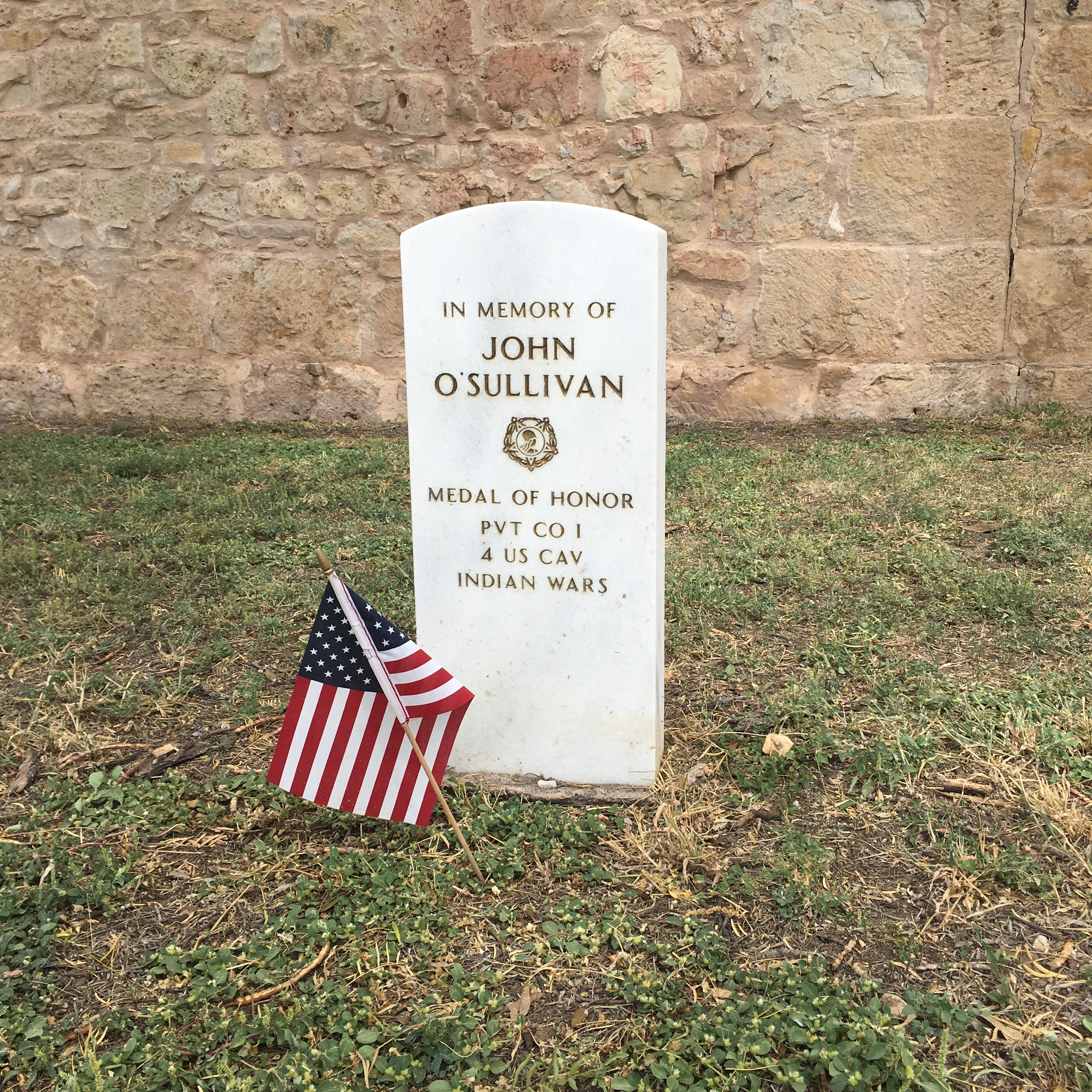 This is a memorial headstone located at Fort Concho, San Angelo, Texas dedicated to John Francis O'Sullivan, killed during the American Indian Wars. He posthumously received the Medal of Honor on 13 October 1875.